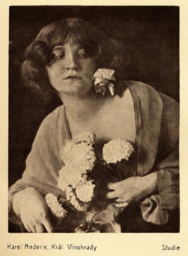 Karel Anderle, Czech photographer